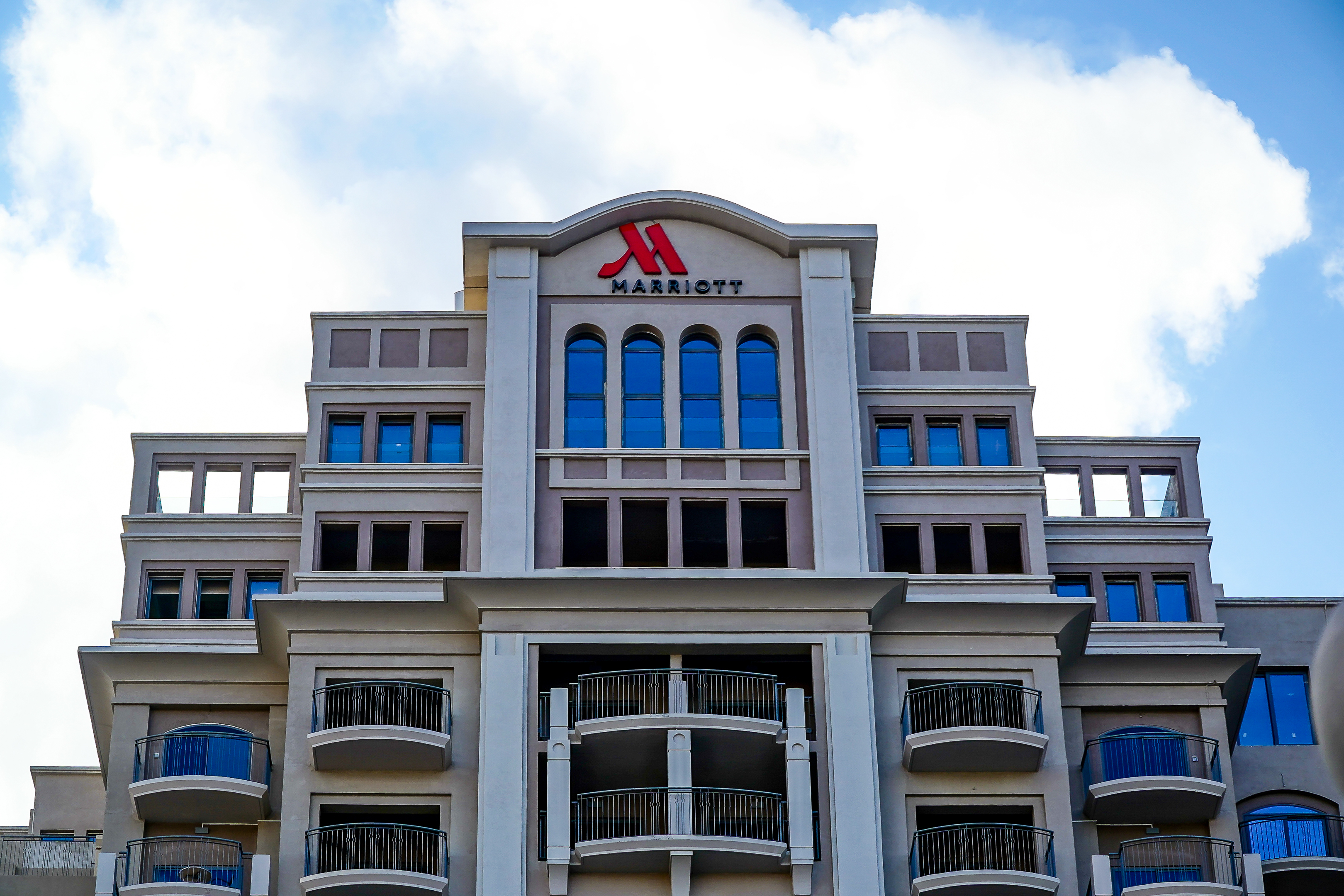 Facade of Malta Marriott Hotel & Spa